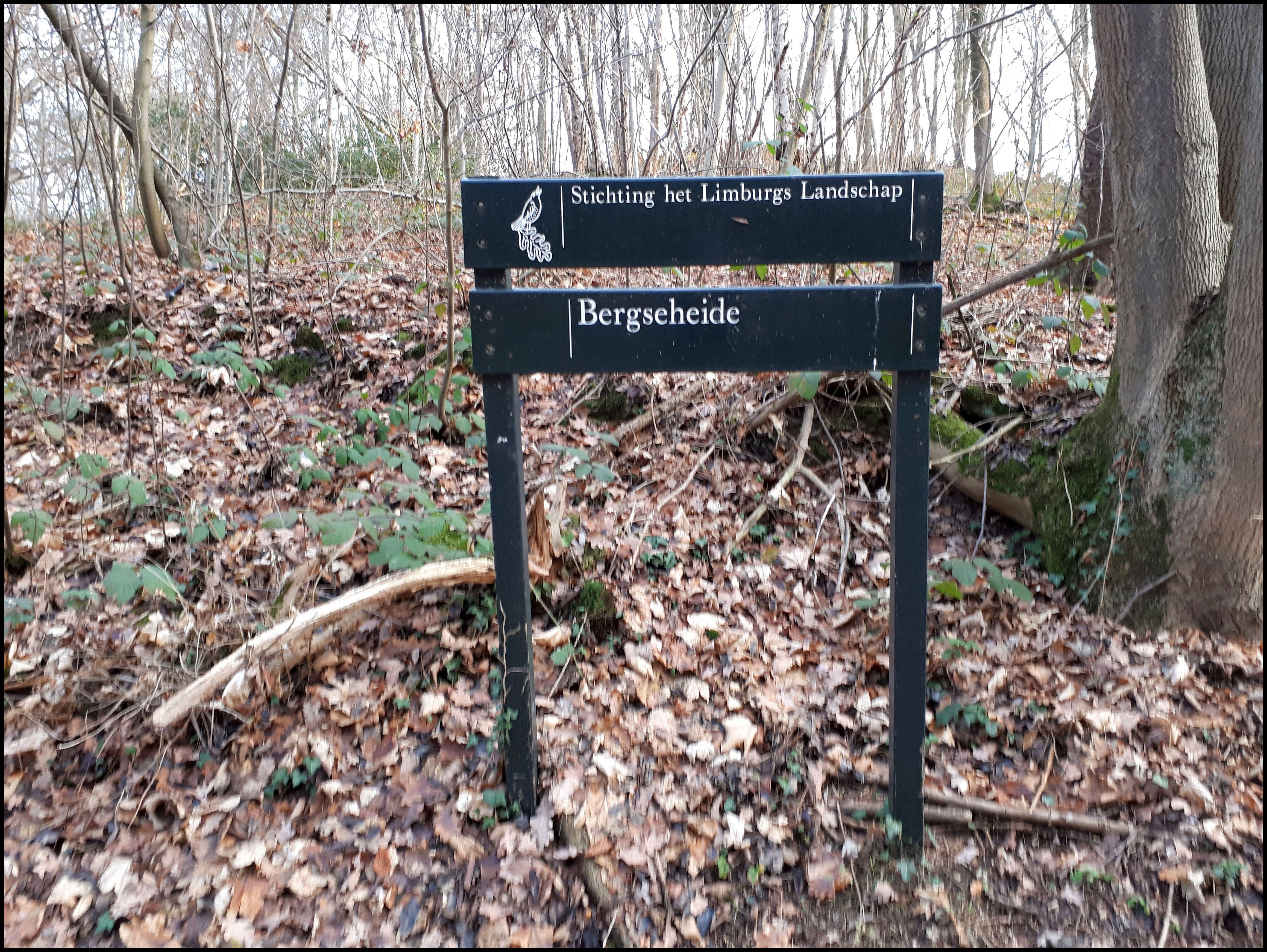 Bergse Heide between the villages of Berg, Vilt and Houthem is home to a variety of birds, wild boars and roe deer. Grab your waliking between dawn and sunset. Mountainbiking allowed.